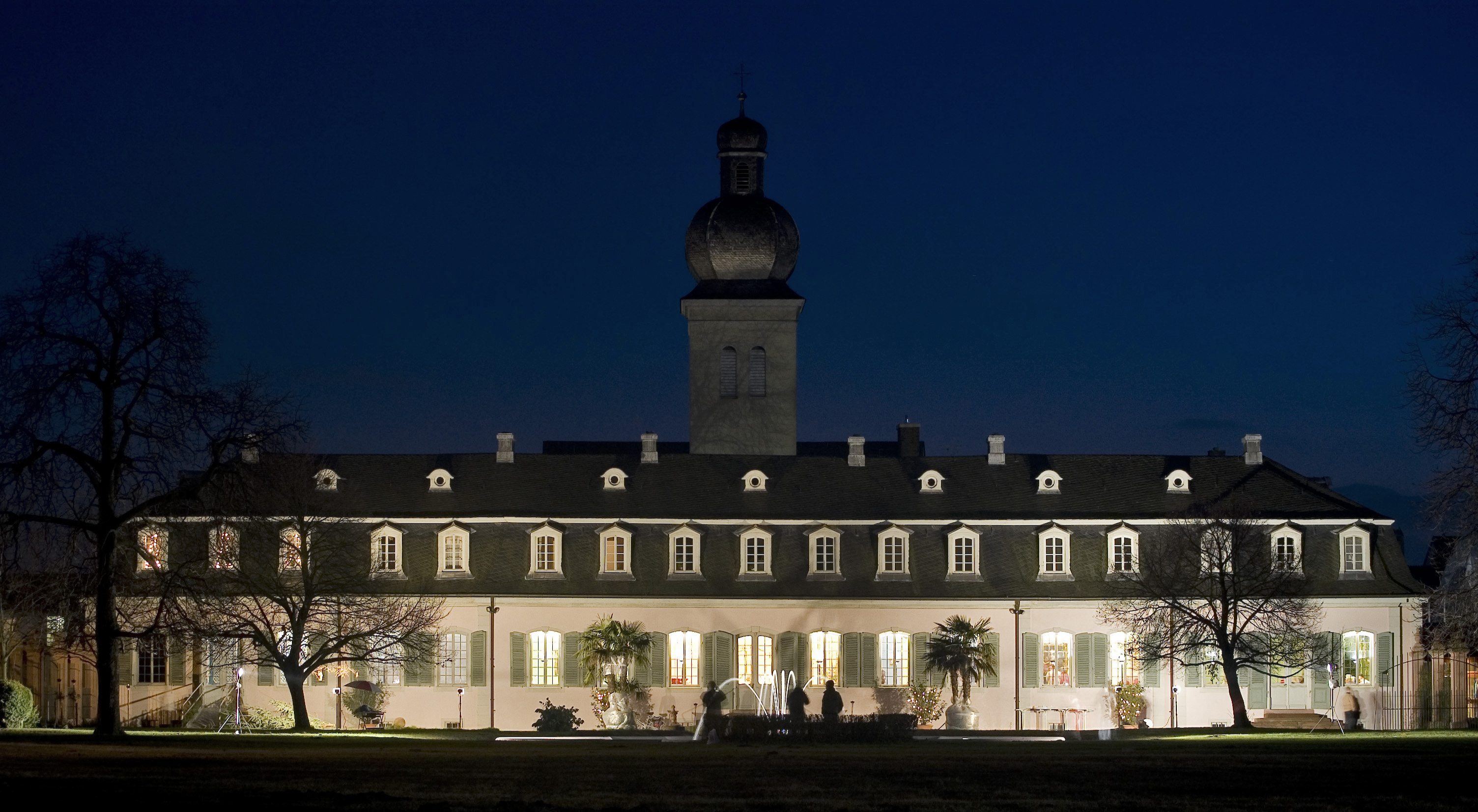 Castle Braunshardt at night. Built in 1670 by Prince Georg Wilhelm.